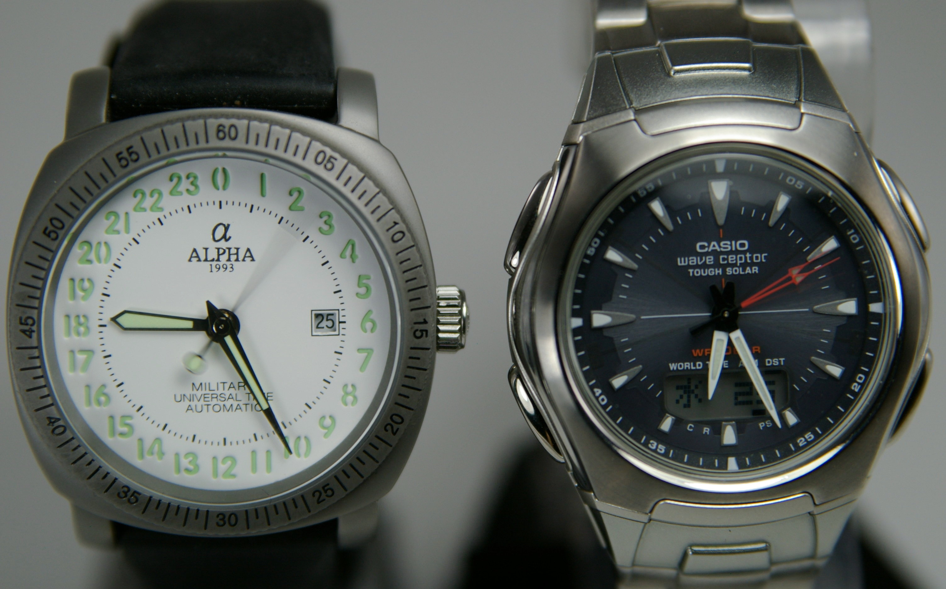 The watch on the left has a mechanical movement that ticks 6 times a second, while the quartz watch on the right moves the seconds hand once a second.